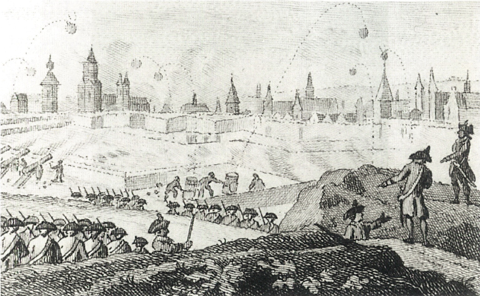 Maastricht, the Netherlands. View of the Siege of Maastricht by the French revolutionary army led by general De Miranda in 1793.